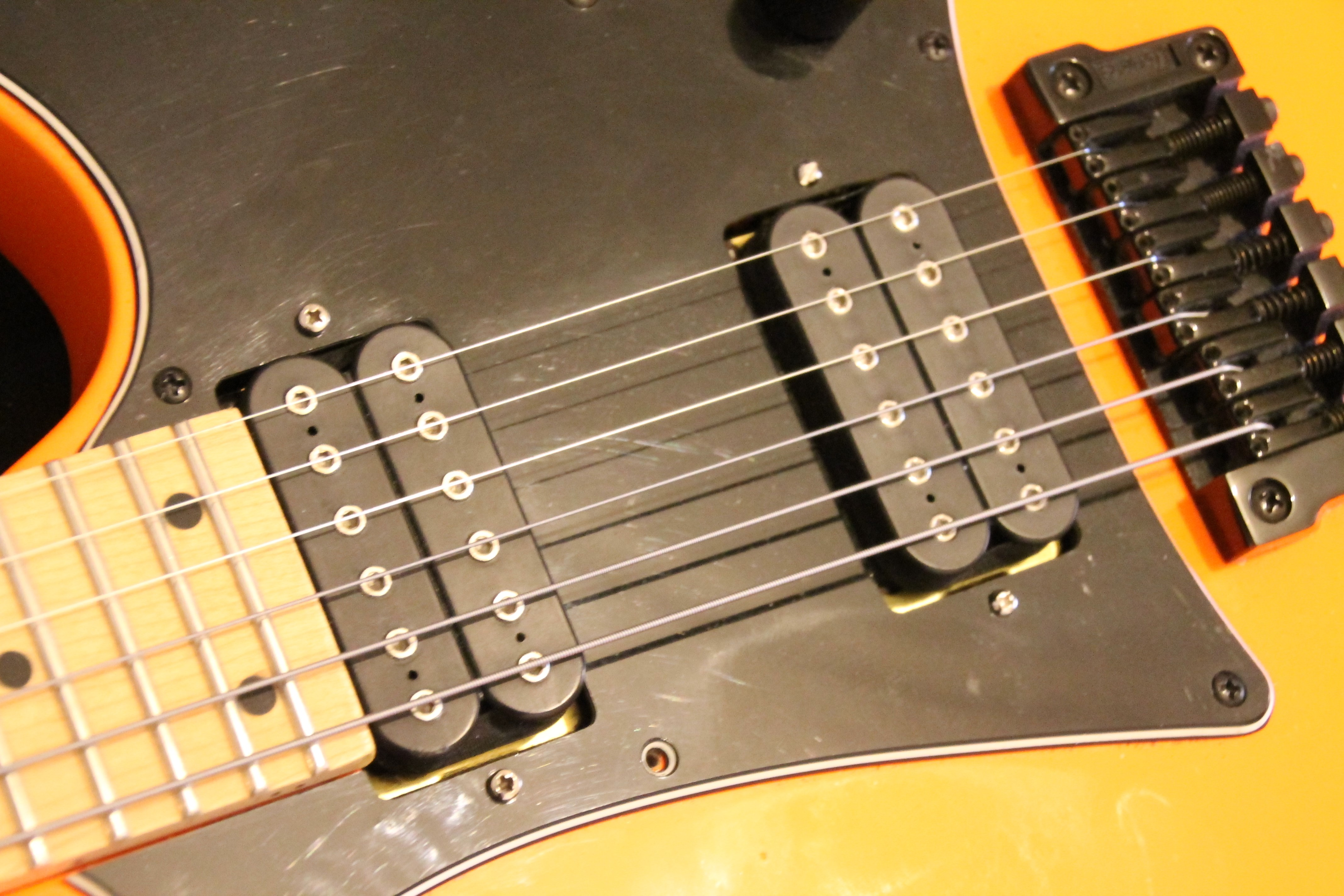 DiMarzio Humbucker From Hell (neck) and Joe Satriani -signature model Mo' Joe (bridge).